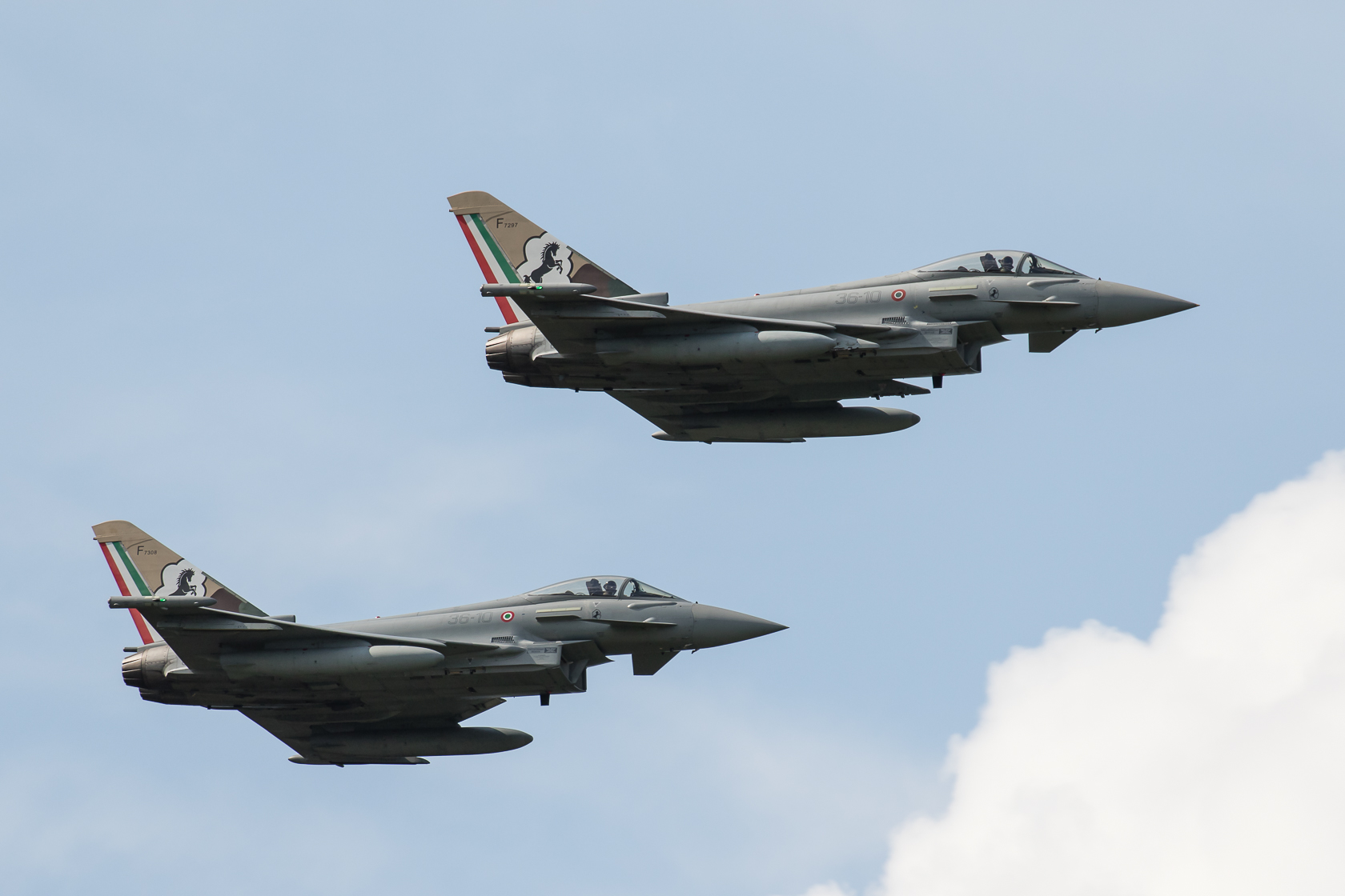 Eurofighter EF-2000 Typhoon S MM7297 / 36-10 (cn IS029) and MM7308 / 36-10 (cn IS040) special tail colour fly-by remembering Francesco Baracca